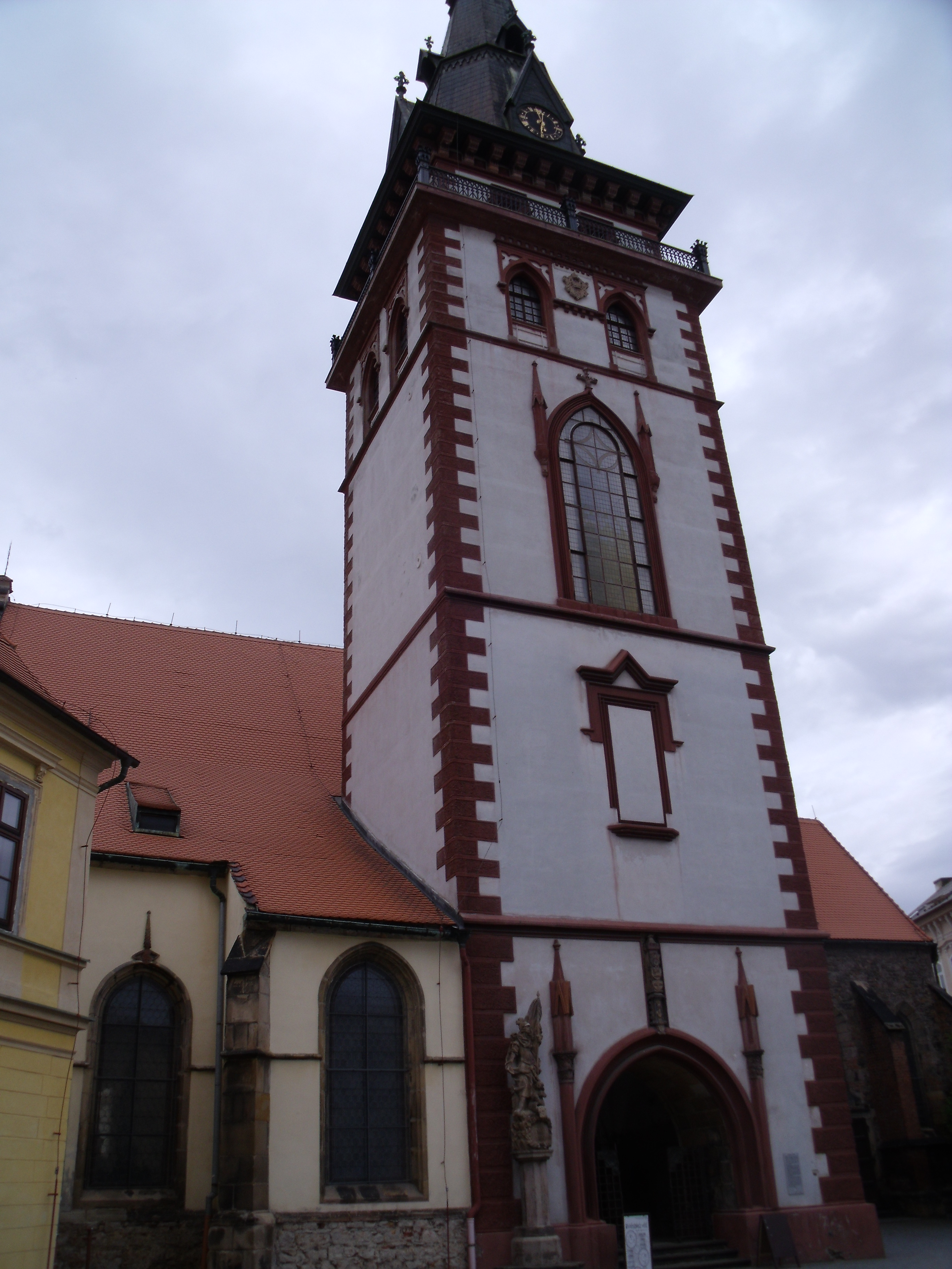 Městská věž